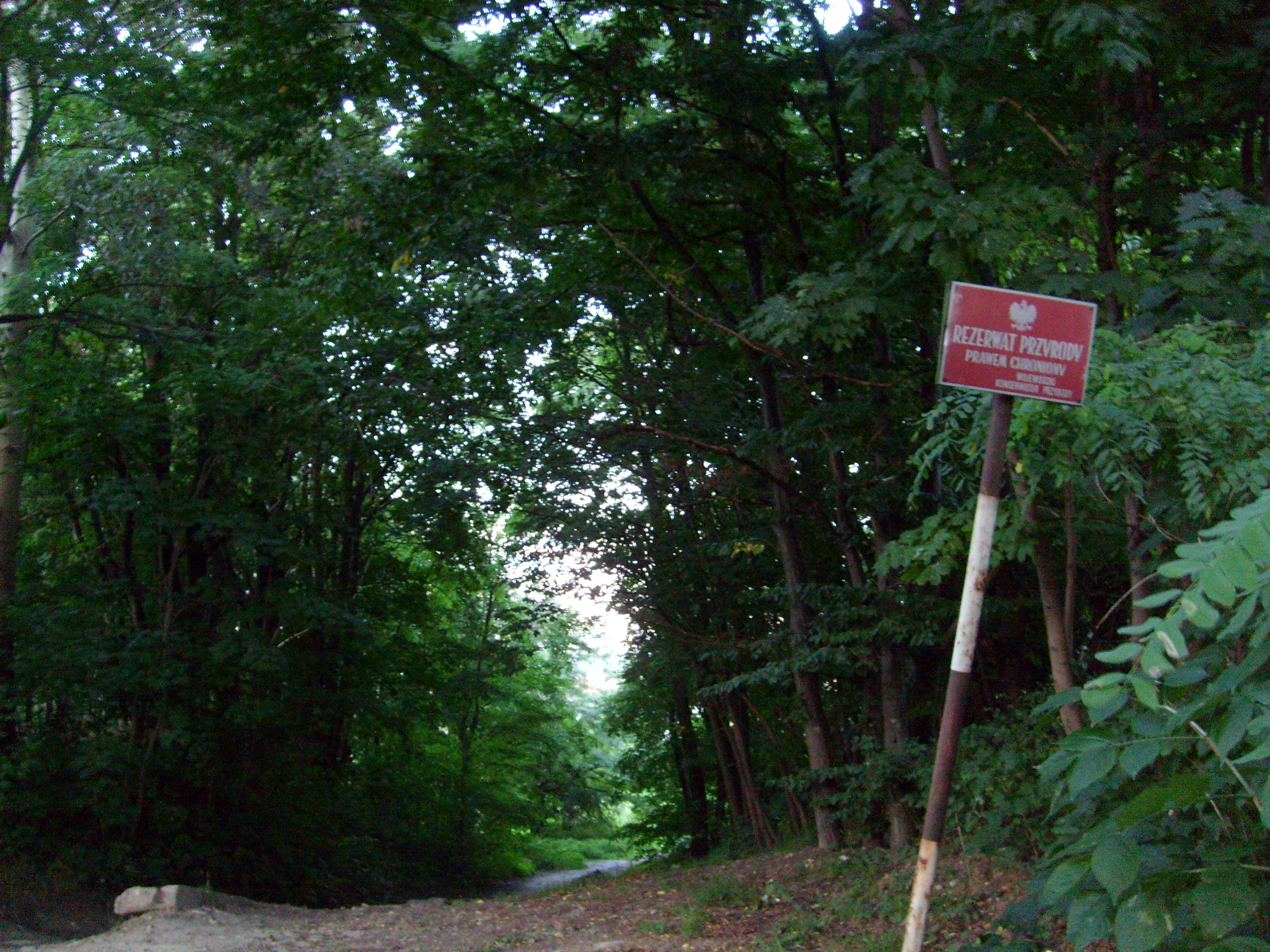 Skarpa Ursynowska Nature reserve